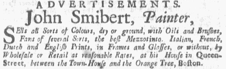 Newspaper item related to Smibert, Queen Street, Boston, Massachusetts